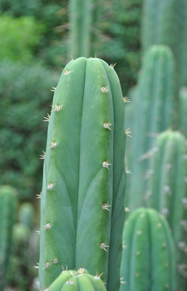 Trichocereus riomizquensis from New Mexico Cactus Research.